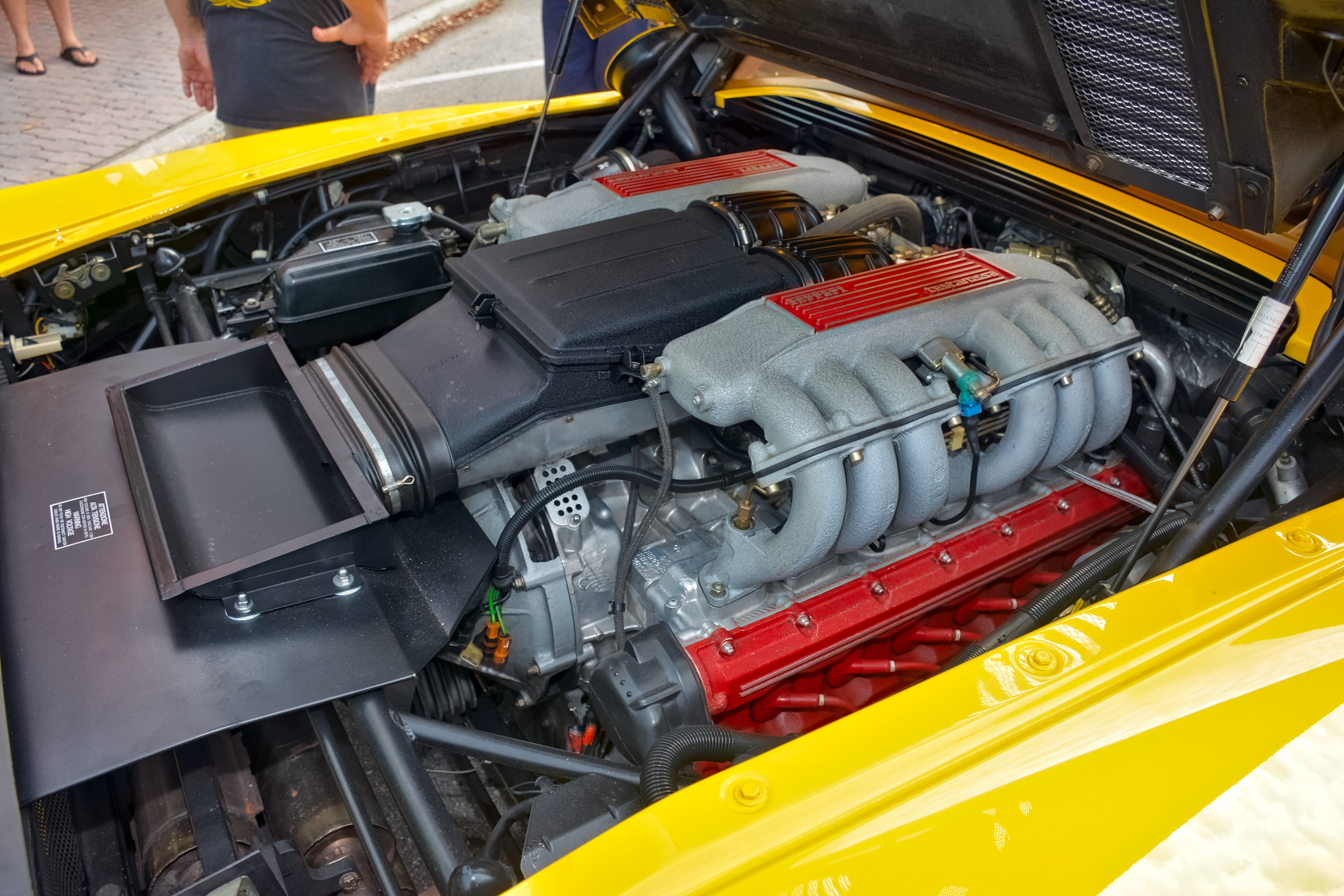 Dunedin Car Show Full Throttle - 1990 Ferrari Testarossa engine